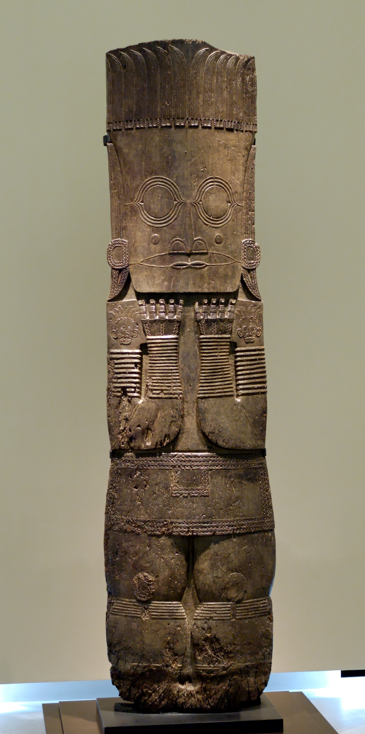 Relief of the Paiwan people. Slate, early 20th century. Found in Laiyi (來義), county of Pindong (屏東), Taiwan.